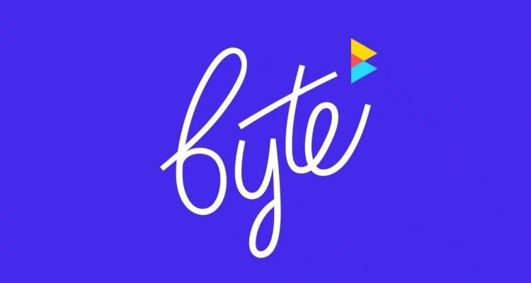 This file represents the old logo for the social media app Byte, created by Dom Hofmann and Byte Inc.